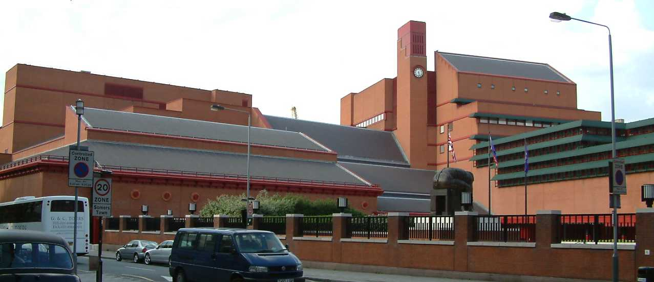 British Library, Kings Cross, London